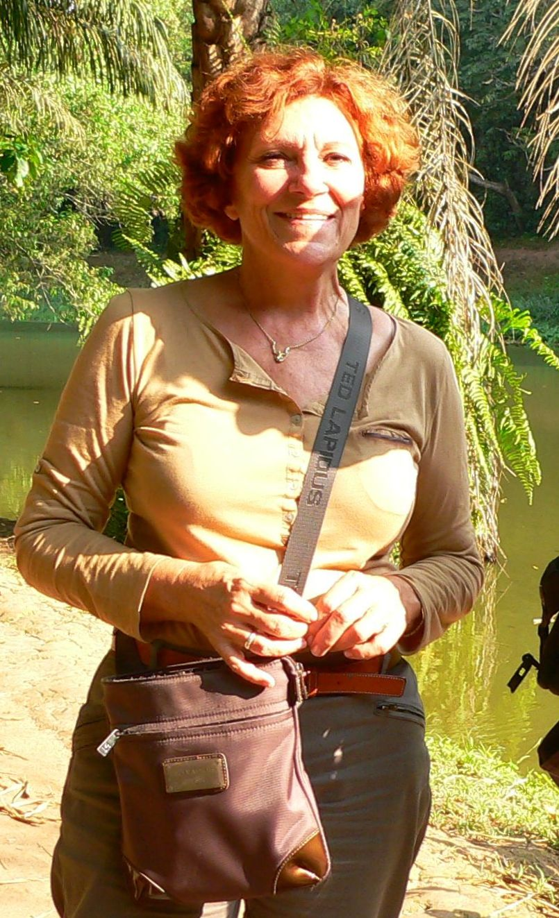 Claudine André at Lola ya Bonobo, Kinshasa, Democratic Republic of Congo, in September 2012.